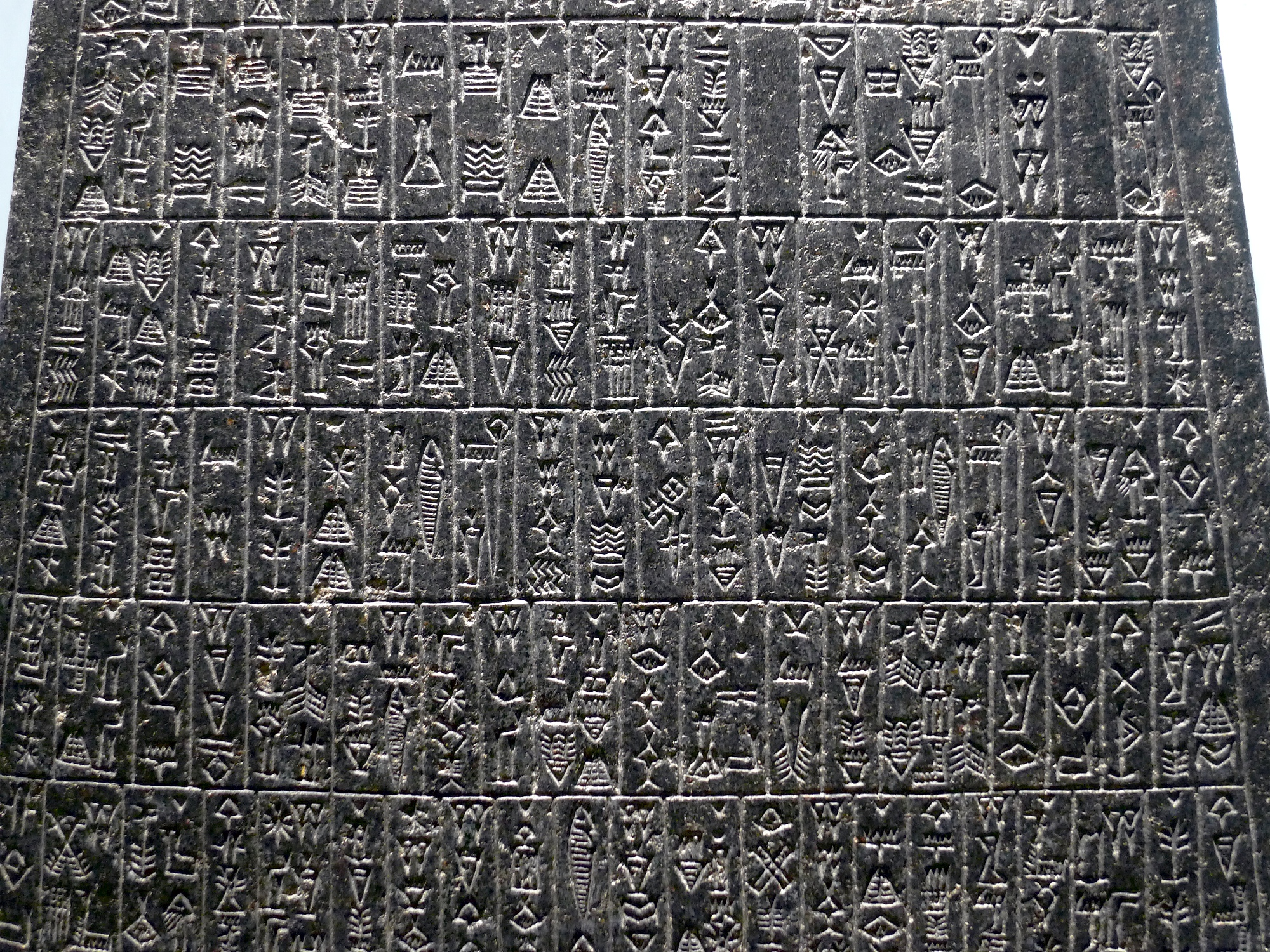 Manishtusu obelisk.